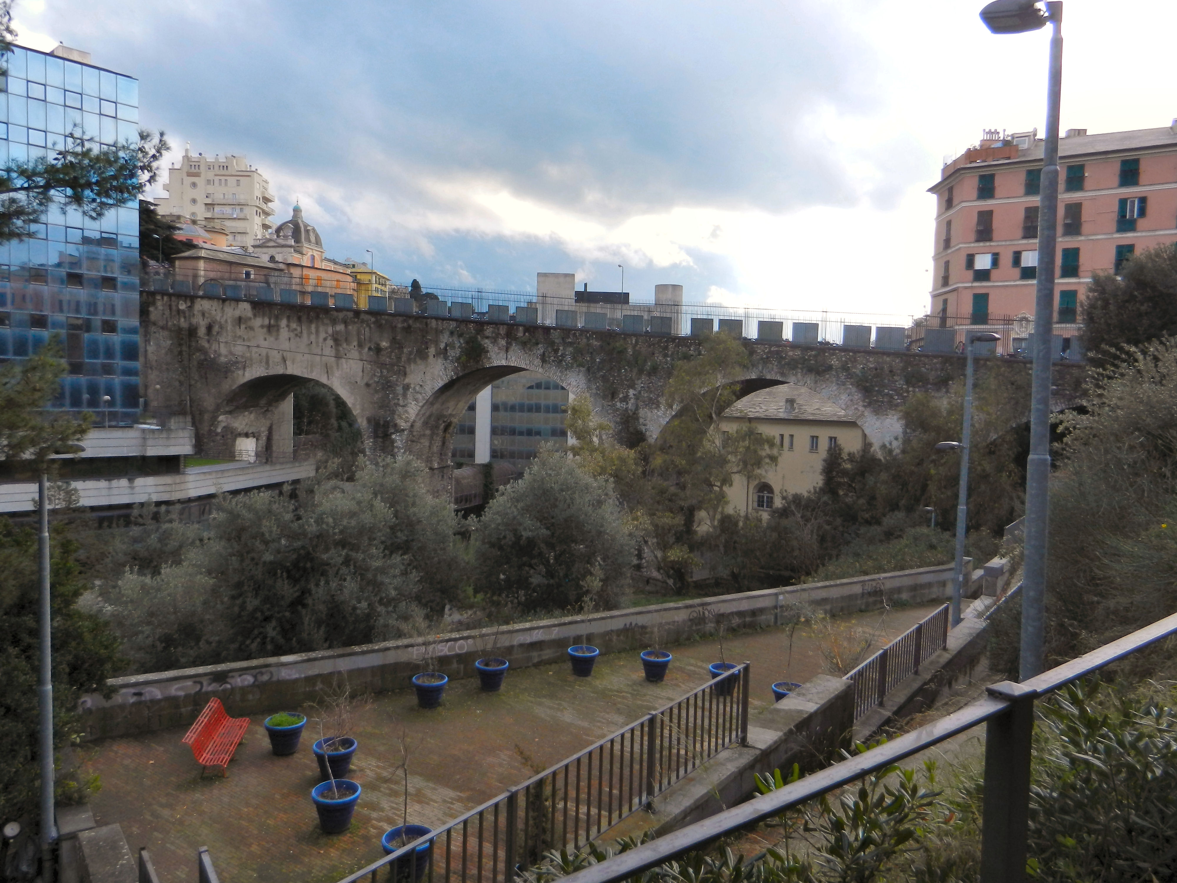 Genoa, Italy, Carignano bridge